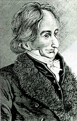 Drawing of Francisco Antonio Zea, Vice president of Colombia.